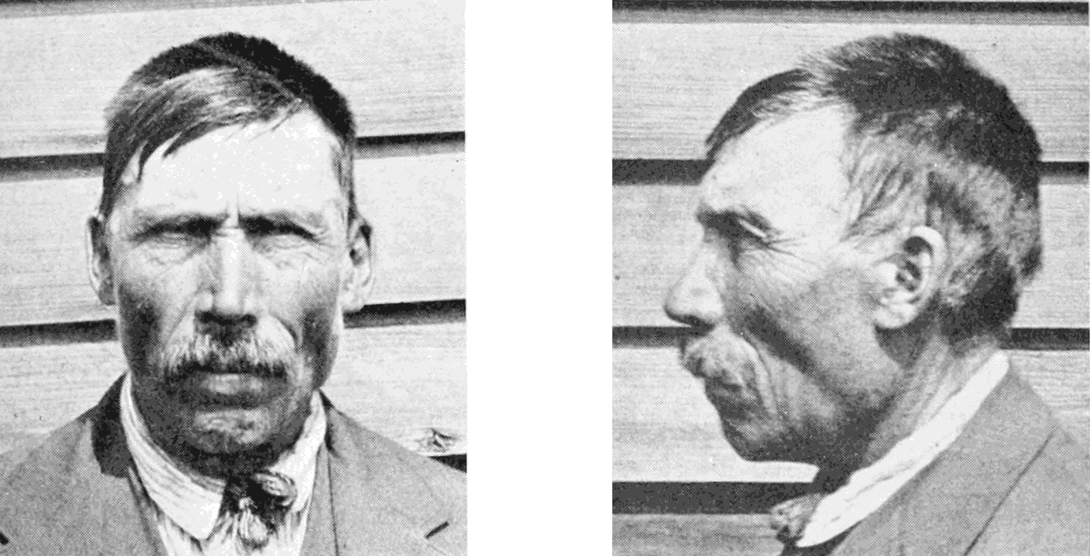 Finn from the west coast of Finland cephalic index 78.